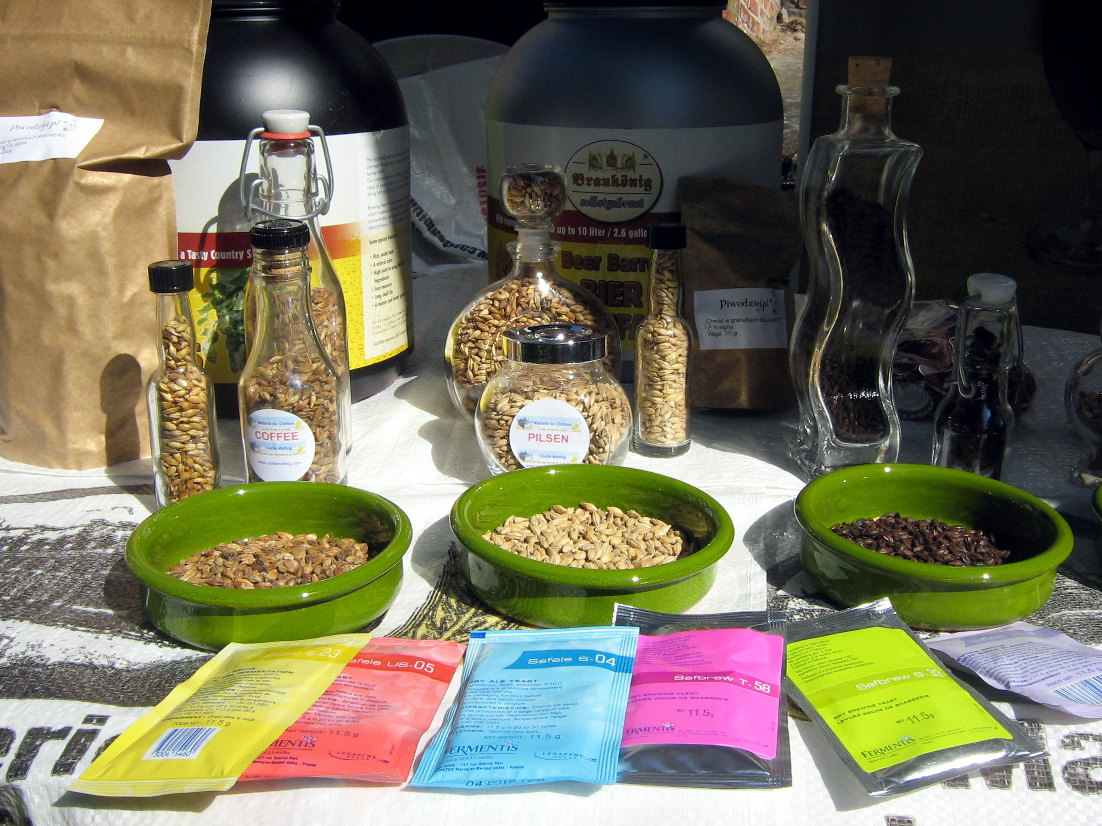 homebrewing ingredients